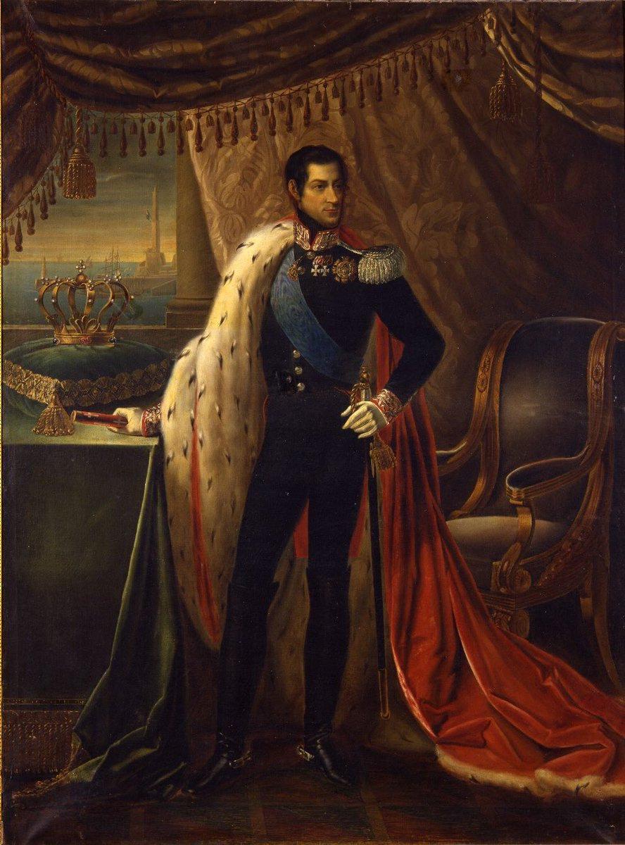 Portrait of Charles Albert of Sardinia (1798-1849)